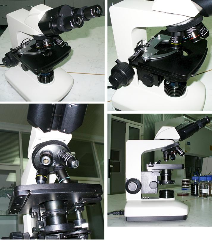 Optical microscope.